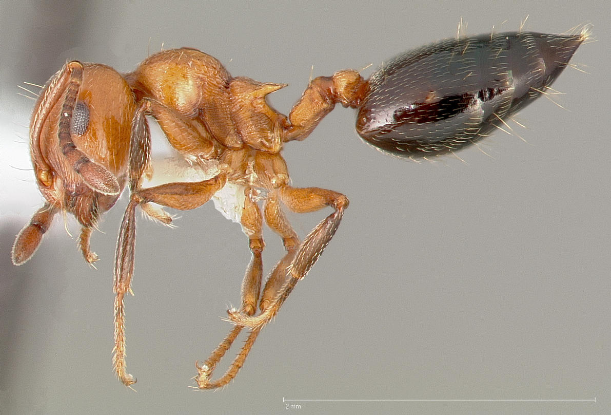 Profile view of ant Crematogaster hespera specimen casent0005669.